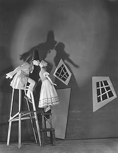 This photo is from a publicity still to promote the 1927 film. I believe the photo to be in the public domain, now. I can find no record of its copyright being renewed.